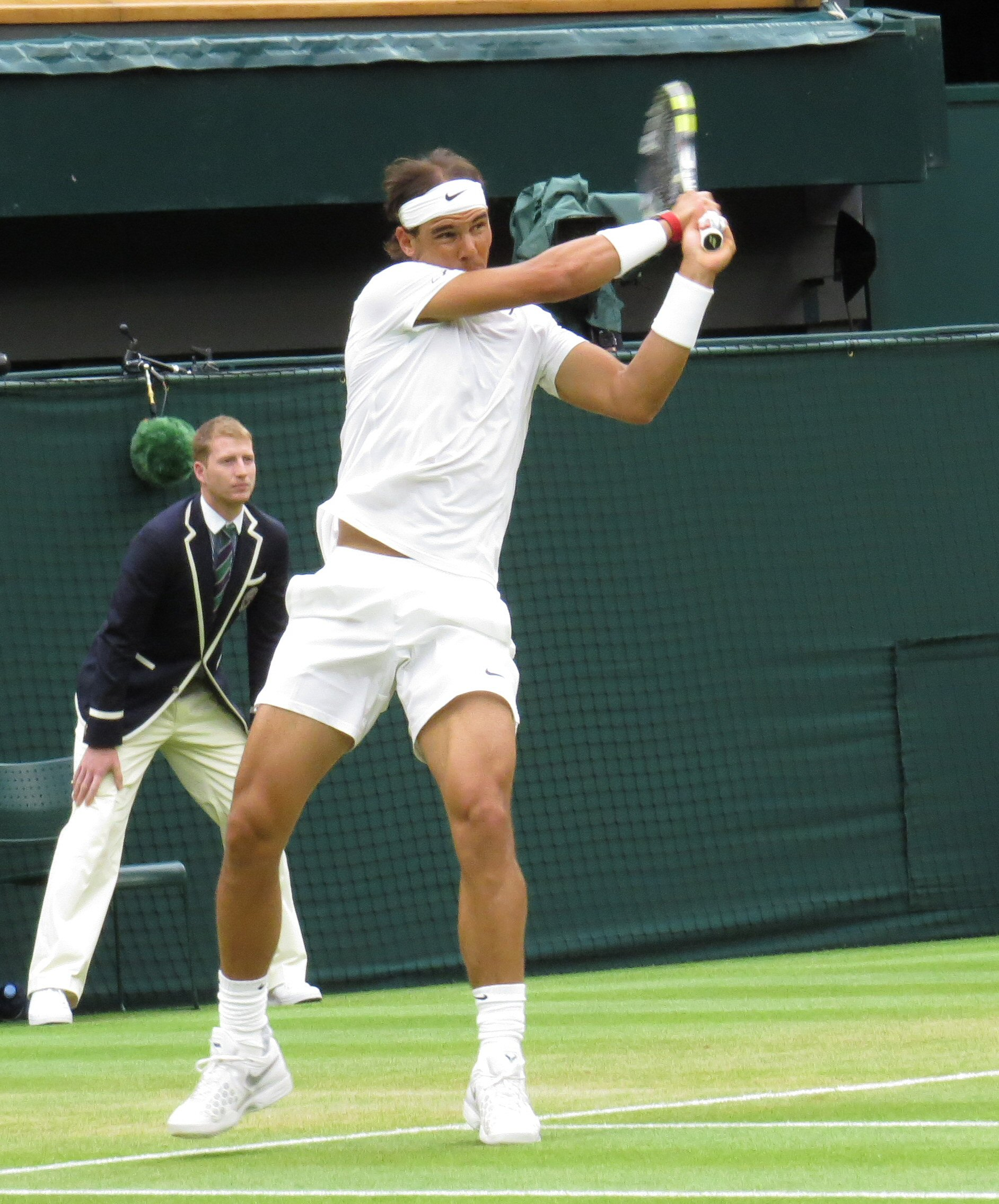 Rafael Nadal in R32 match at Wimbledon 2014 against Mikhail Kukushkin